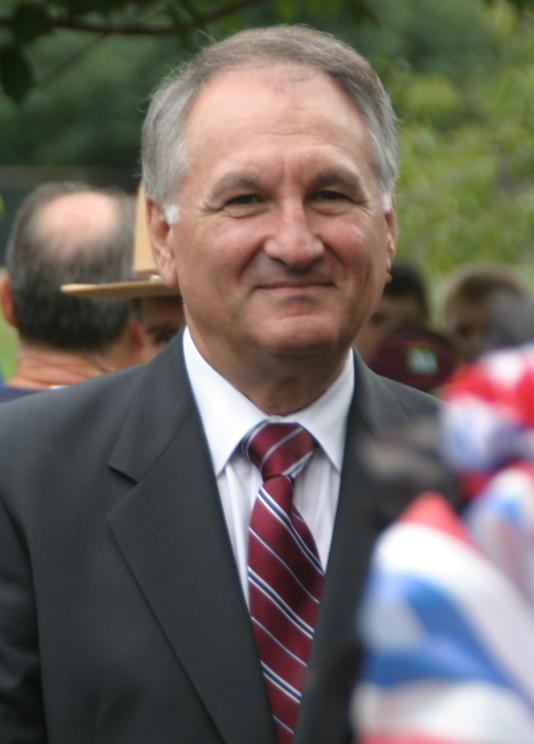 Nassau County Comptroller George Maragos during a wreath laying ceremony on the 10th Anniversary of 9/11.